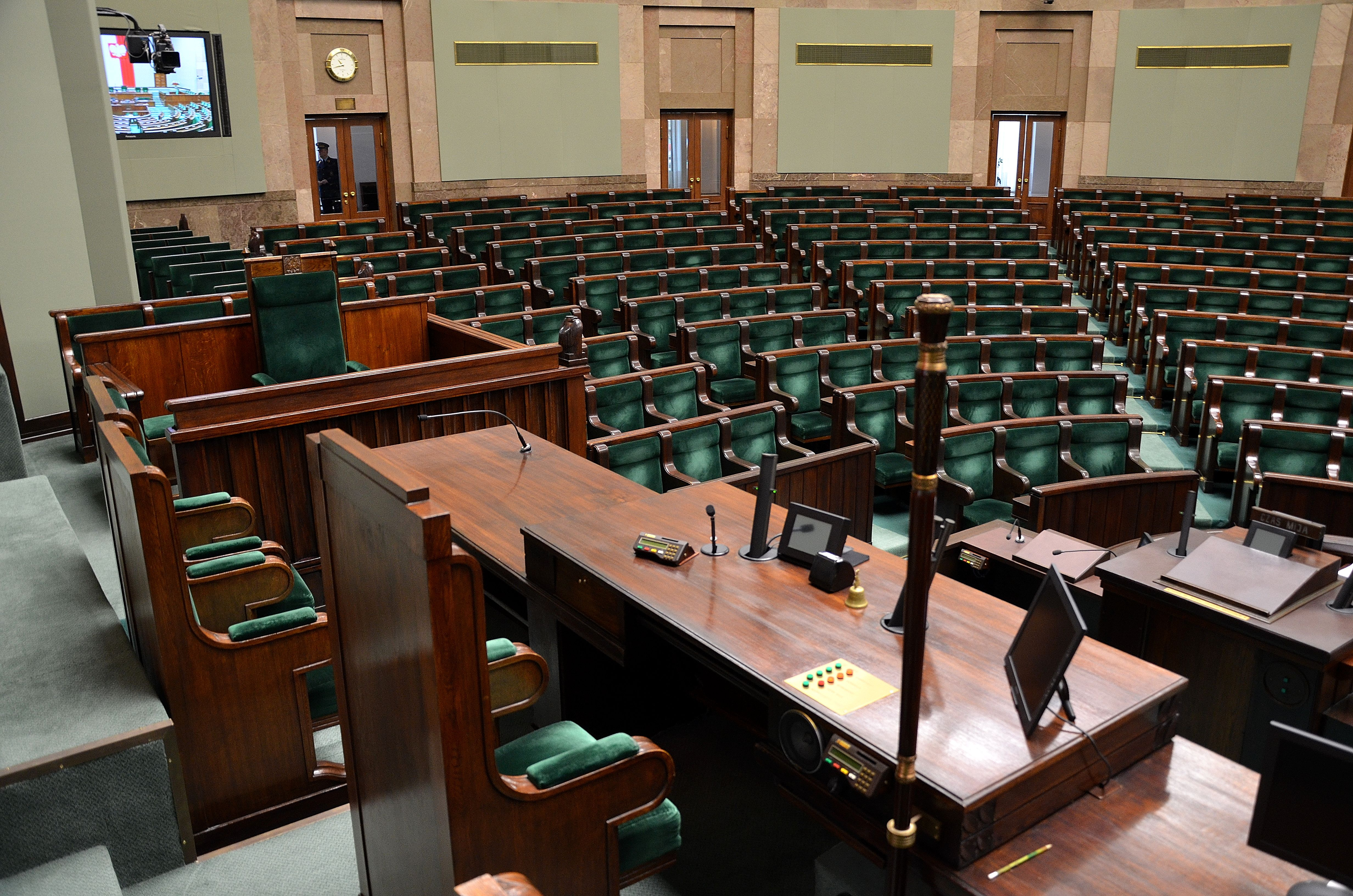 Sejm Plenary Hall (Warsaw, Poland)